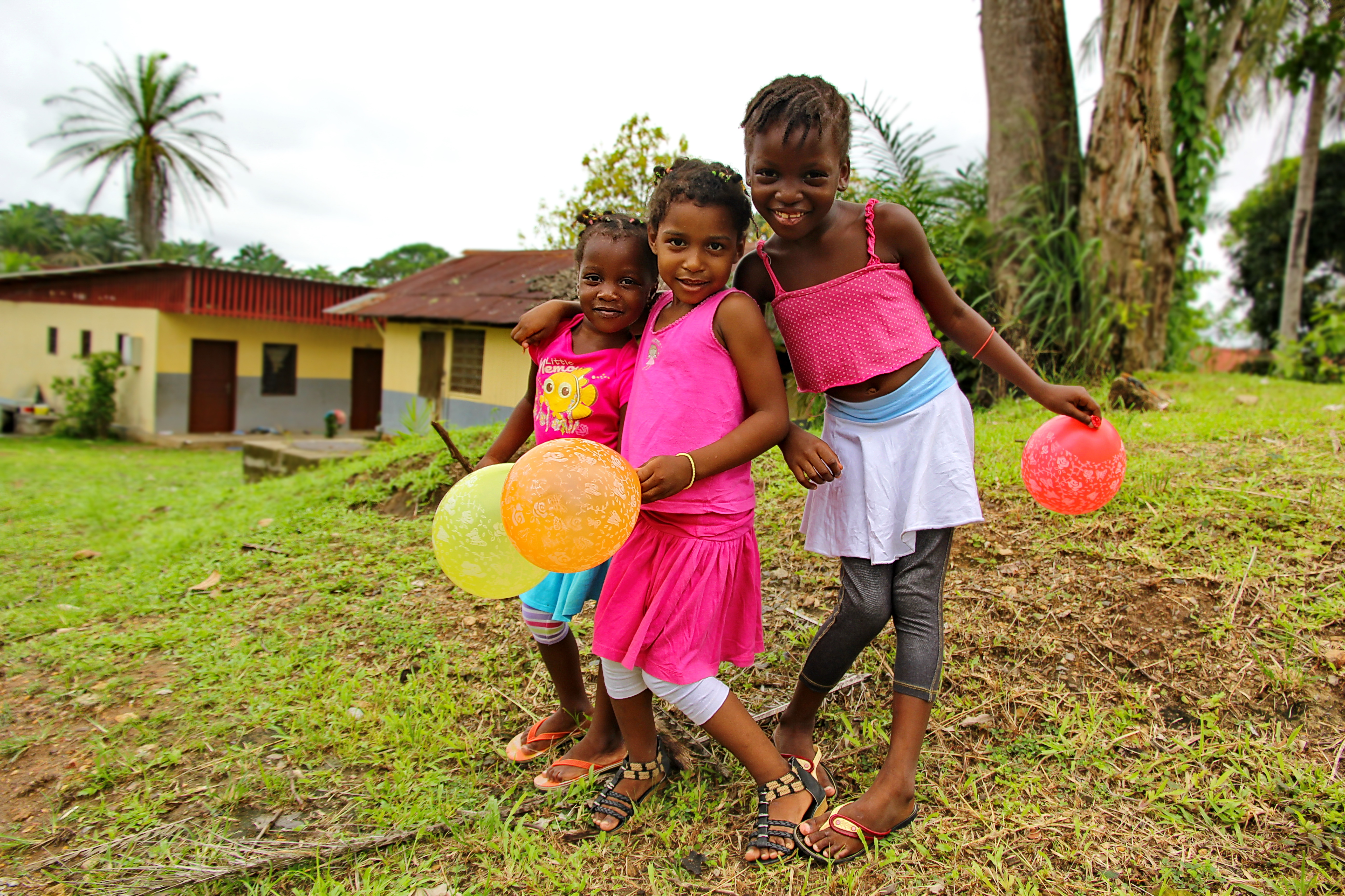 Lambarene, Gabon This is an image of food from Gabon